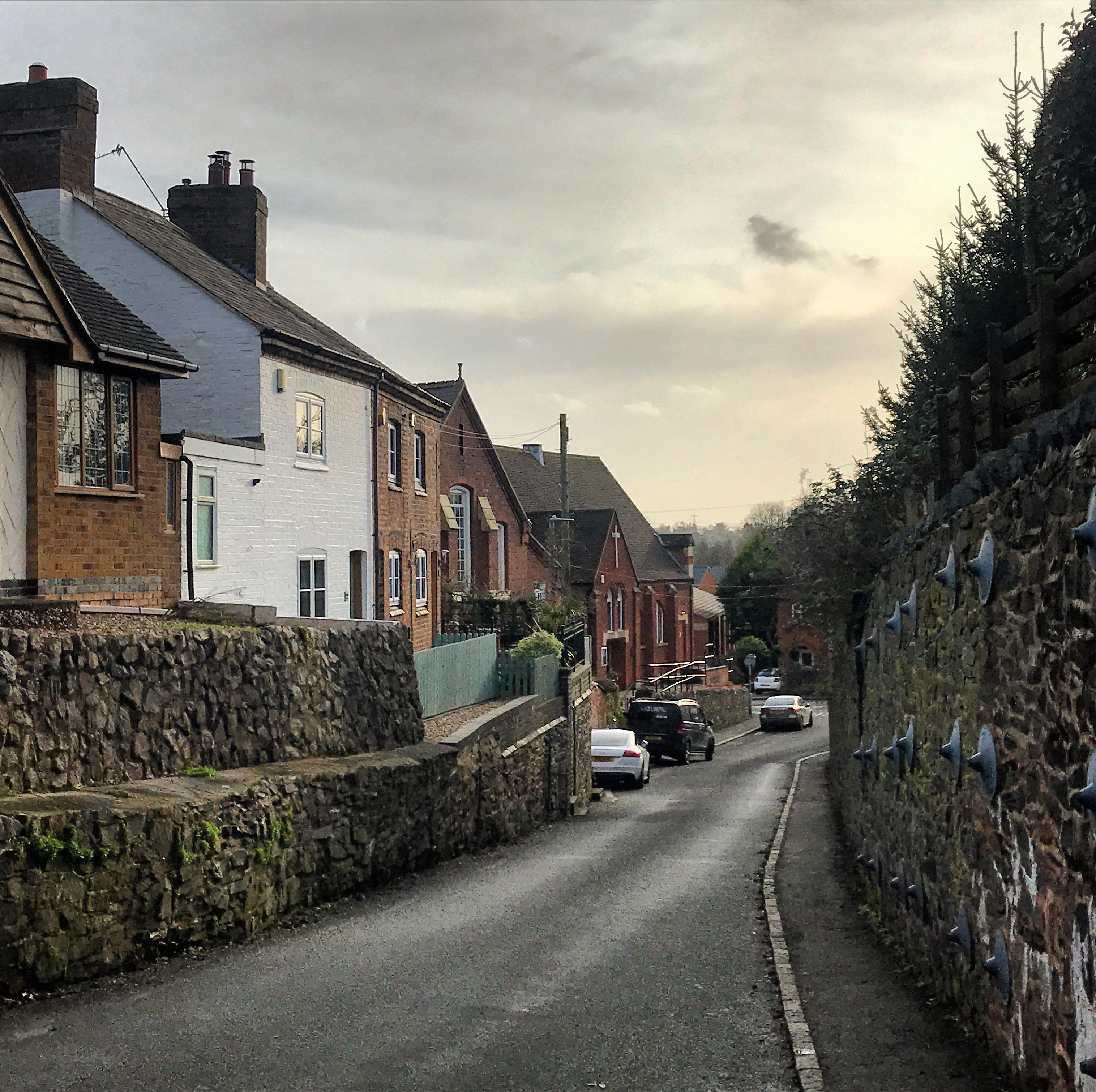 Chapel Lane, Ratby, Leicestershire, February 2020 (incorrectly dated January in the filename)